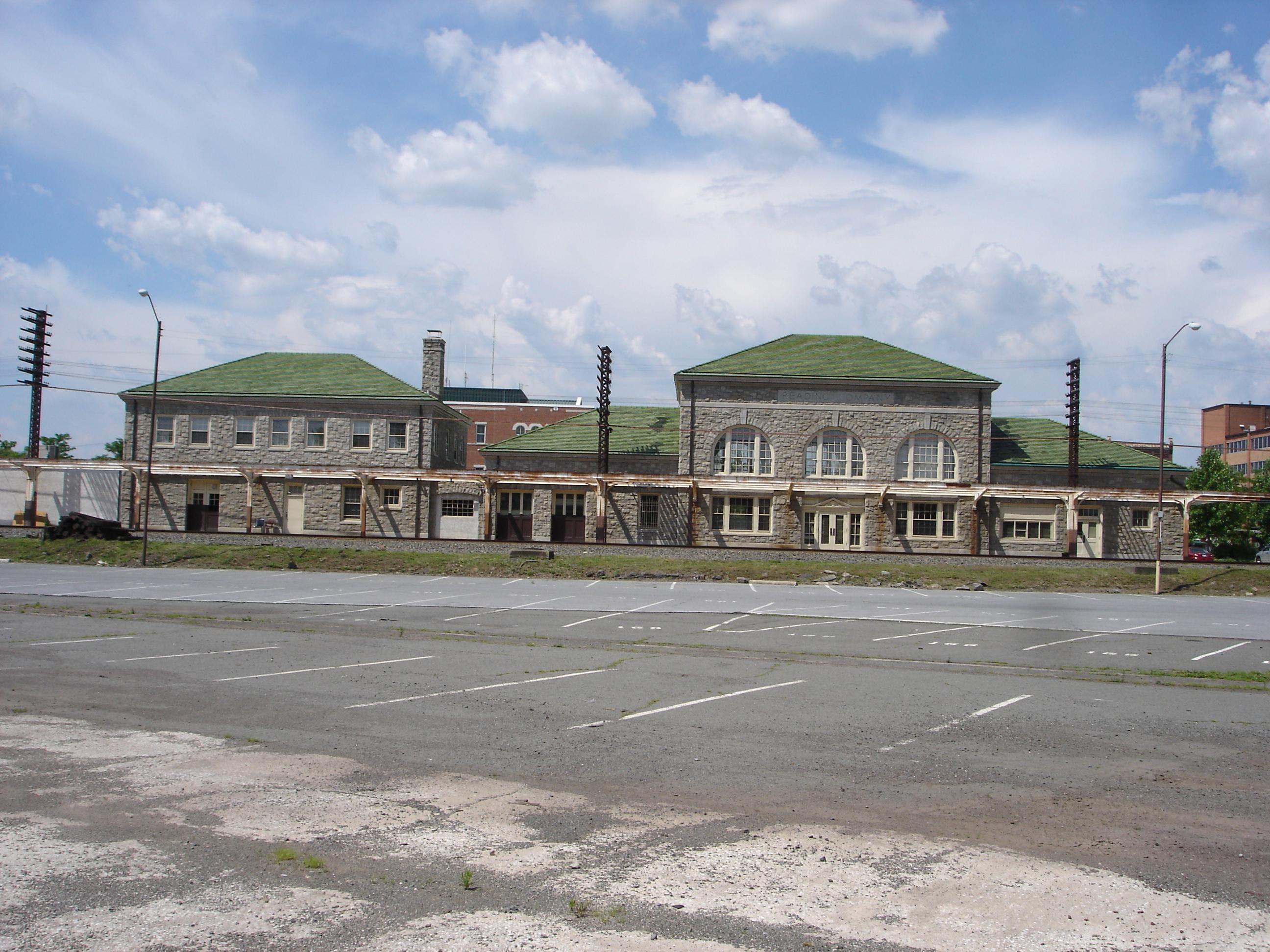 Former Reading Railroad Station in Pottstown, PA. It is now a Harleysville National Bank